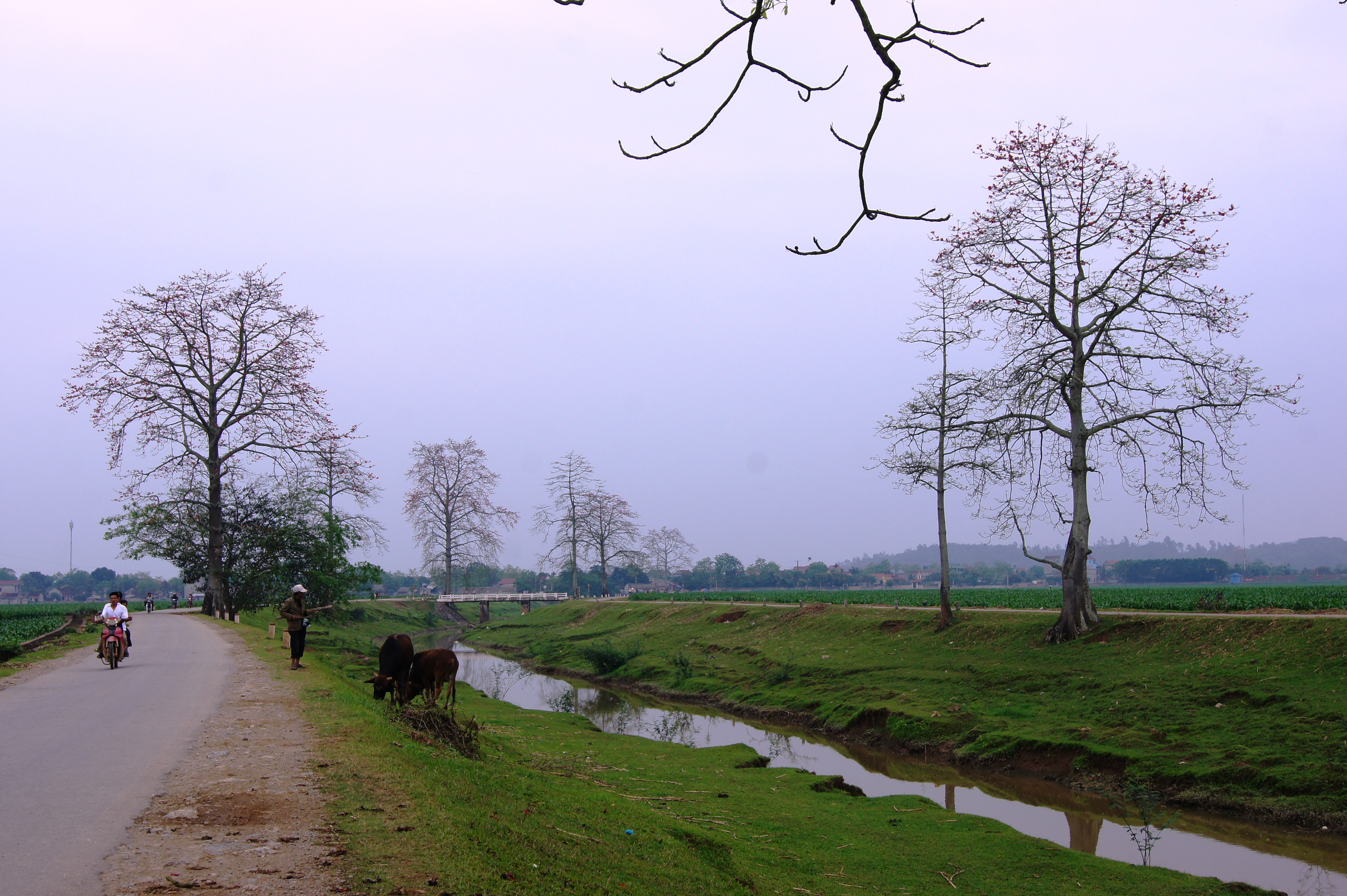 Semal (Bombax ceiba) flowers in Viet Nam.